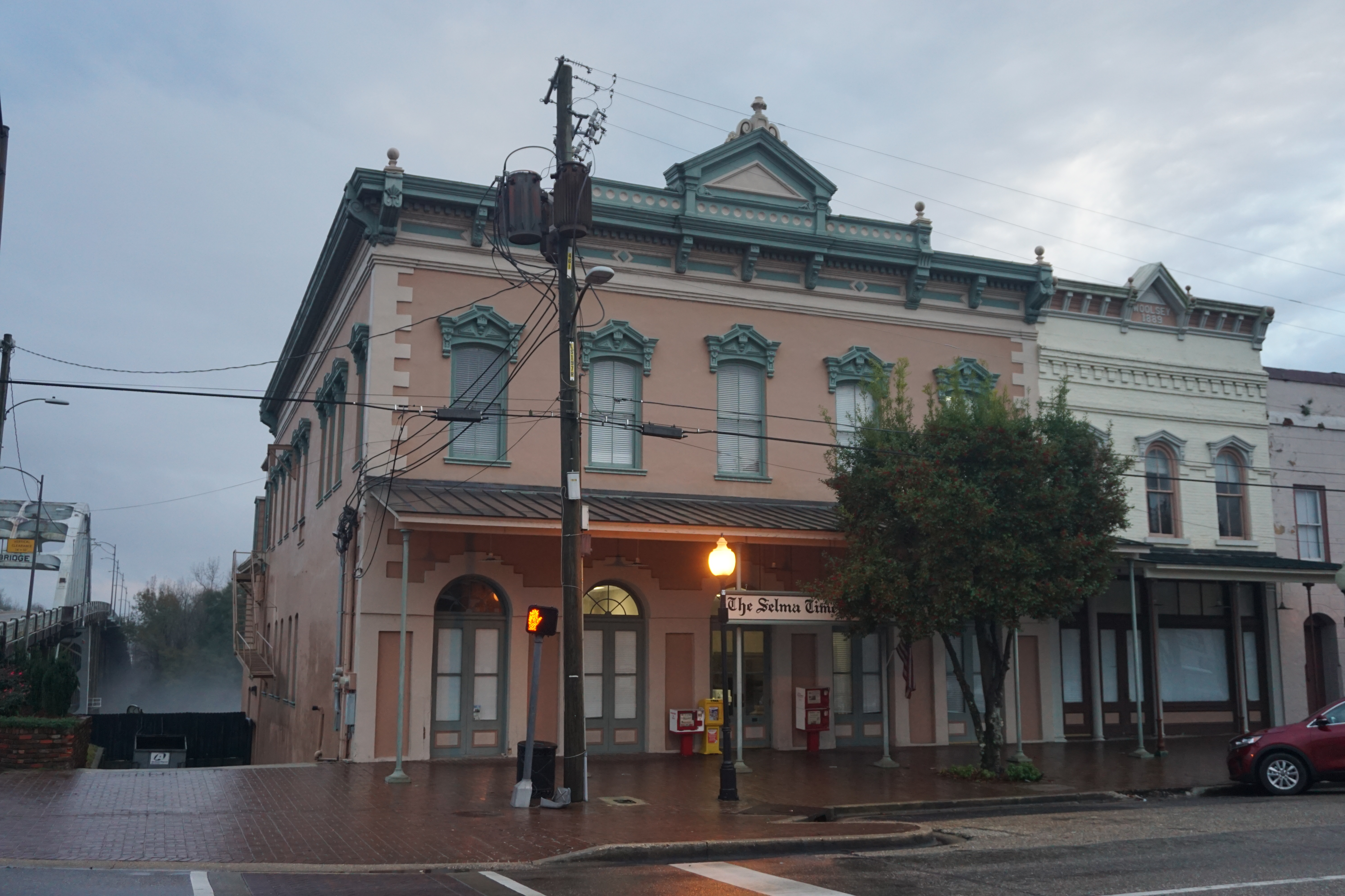 The Selma Times-Journal building in Selma, Alabama (United States).